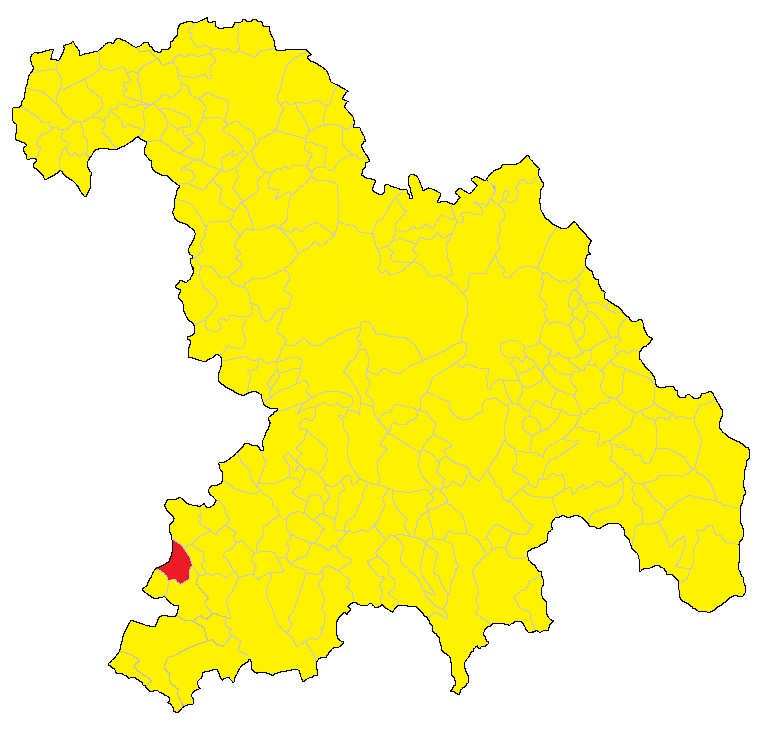 Mappa del comune di Ponti (AL)